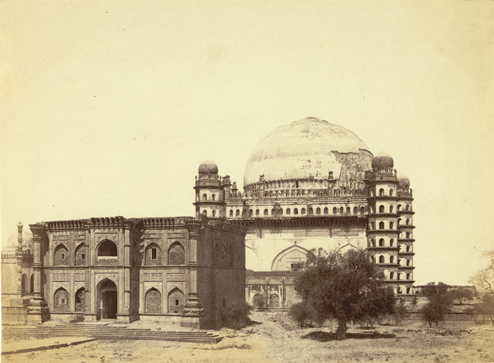 Photographer; Hinton, Henry Medium; Photographic print Year: 1860 Photographer's Caption: "........built on a terrace 200 yards square. Height of tomb externally 198 ft, internally 175. Diameter of dome 124 feet, 4 minarets of 8 storeys, 12 ft broad entered by winding staircases terminating in cupolas'. Print 1 of Henry Hinton's The Ruins of Beejapoor, in a series of nineteen views from collodion negatives (Bombay, 1860). The Gol Gumbaz, a grand mausoleum of Muhammad Adil Shah, though a structural triumph of Deccan architecture, is impressively simple in design, with a hemispherical dome, nearly 44 mts in external diameter, resting on a cubical volume measuring 47.5 mts on each side. The dome is supported internally by eight intersecting arches created by two rotated squares that create interlocking pendentives. A centotaph slab in the floor marks the true grave in the basement, the only instance of this practice in Adil Shahi architecture."